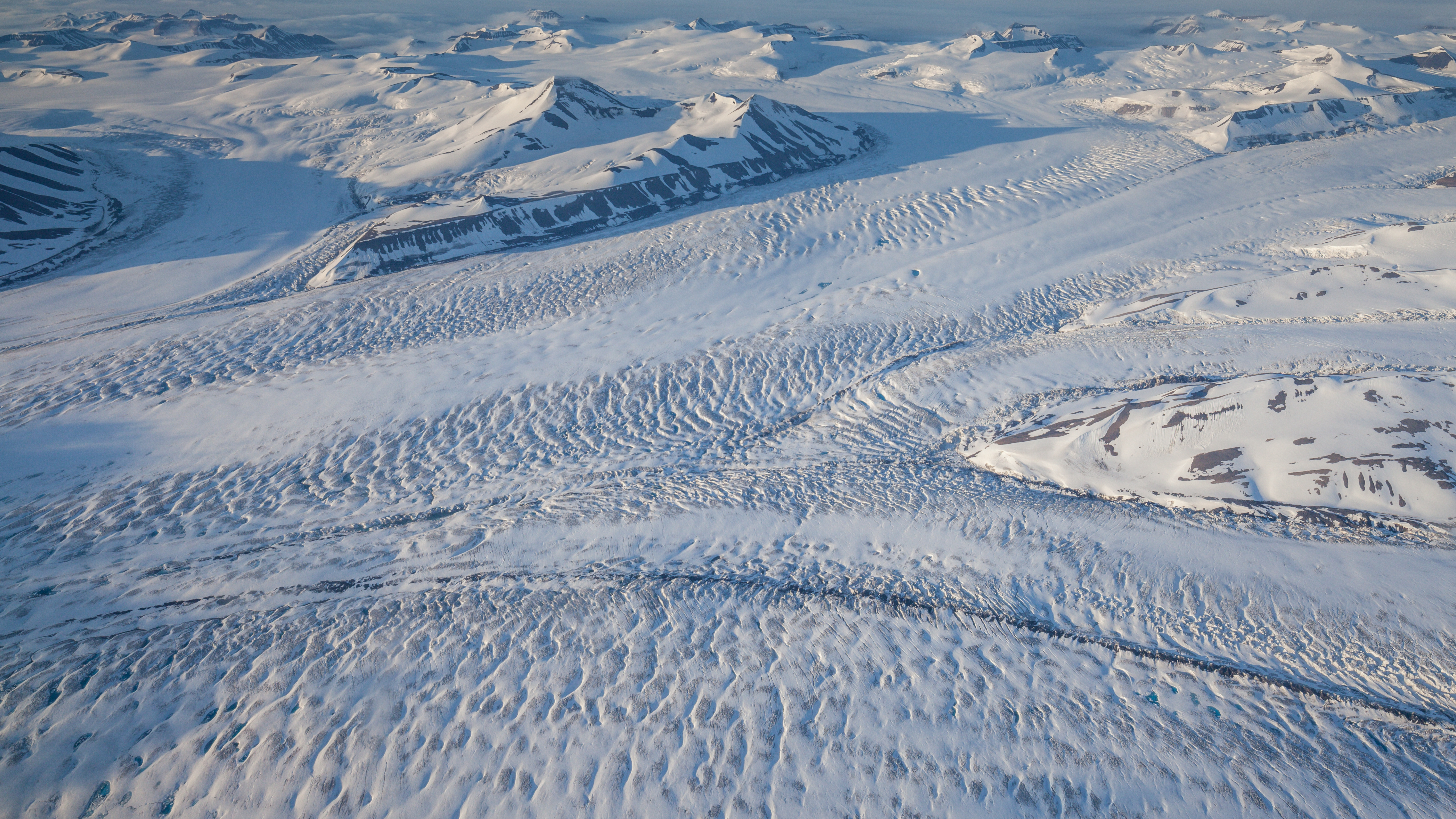 In the approach to Longyearbyen, Svalbard, the plane from Oslo crosses the Nathorst glacier on Torrell Land. During good weather conditions the numerous inflows to the central glacier can be observed. The image was taken close to midnight with a bright shining midnight sun.